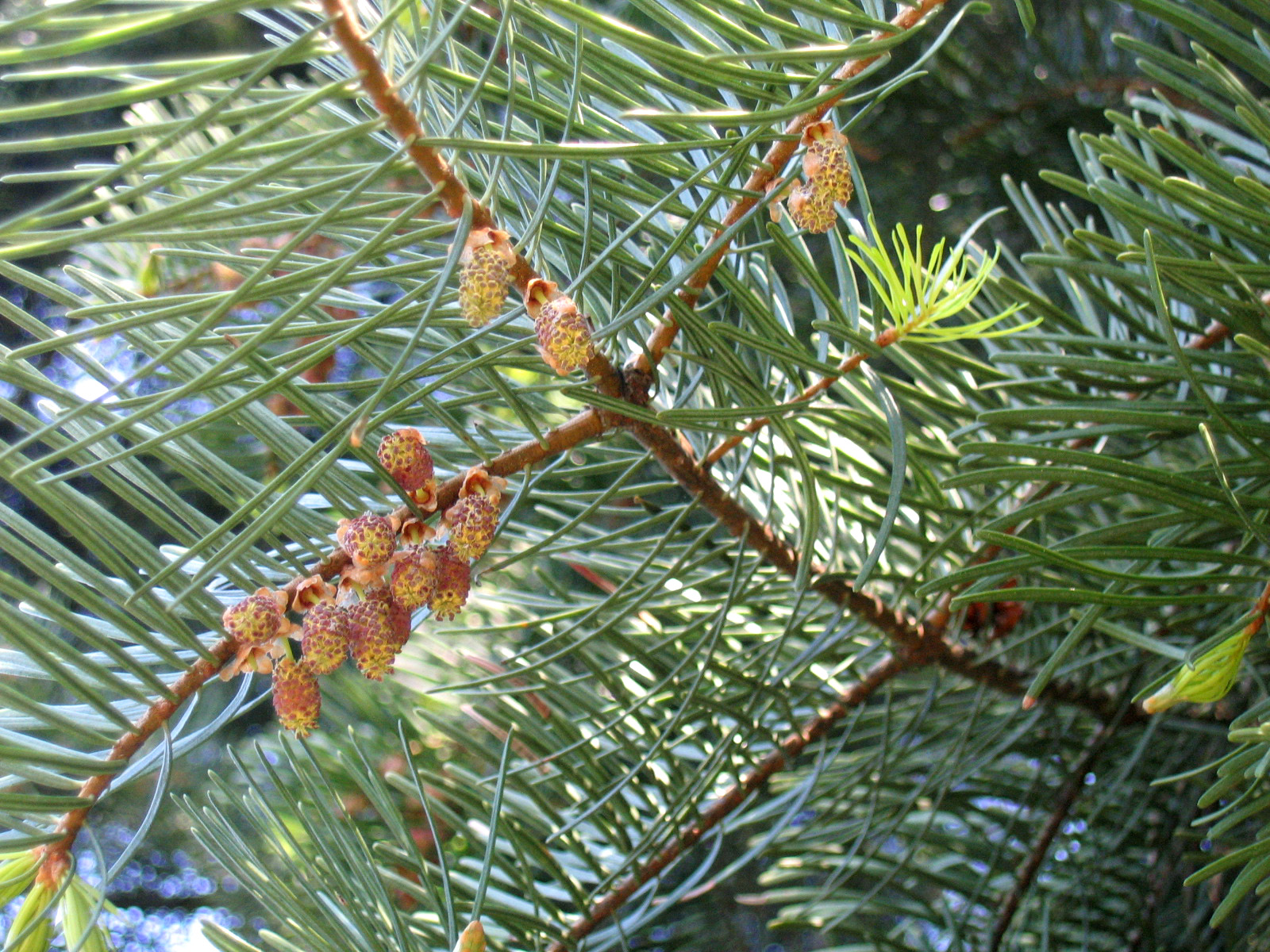 White Fir (Abies concolor), syn. Low's Fir (syn. Abies concolor subsp. lowiana) male cones, tree cultivated in Wrocław University Botanical Garden, Wrocław, Poland.